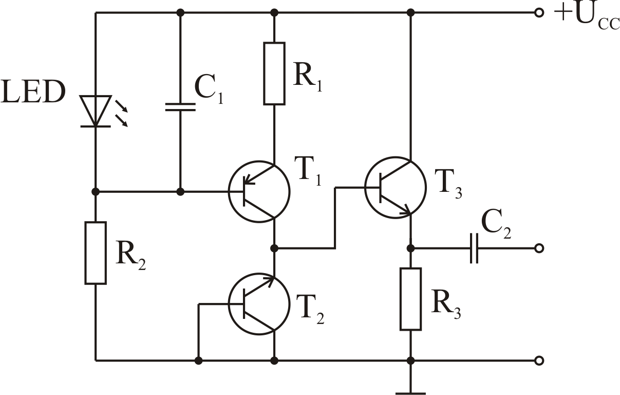 The curcuit of white noise machine with emitter junction of bipolar transistor